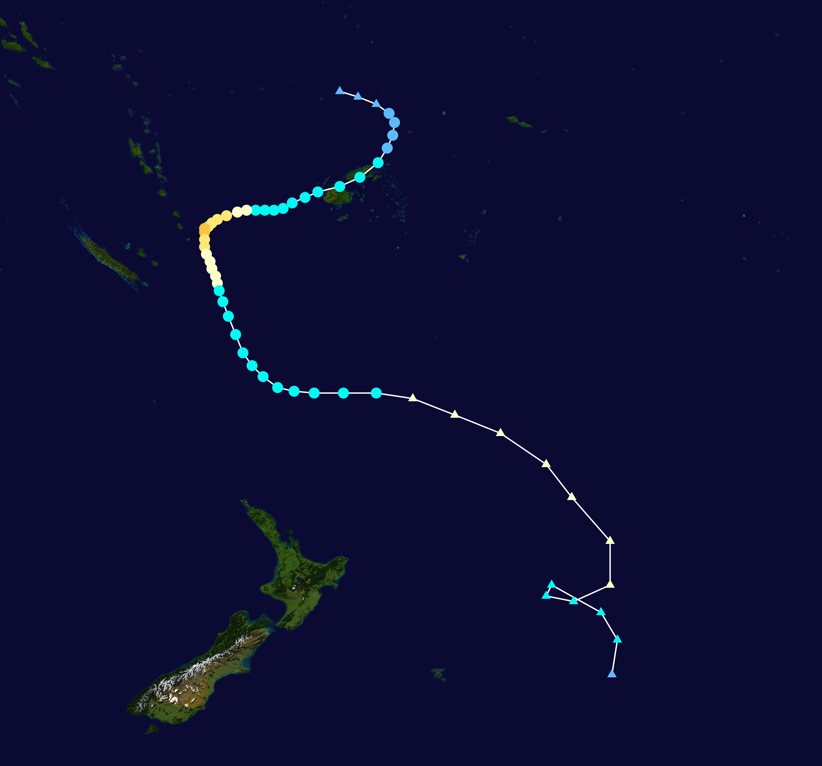 Track map of Severe Tropical Cyclone Gene of the 2007-08 South Pacific cyclone season. The points show the location of the storm at 6-hour intervals. The colour represents the storm's maximum sustained wind speeds as classified in the Saffir–Simpson scale (see below), and the shape of the data points represent the nature of the storm, according to the legend below. Saffir–Simpson scale Tropical depression≤38 mph≤62 km/h Category 3111–129 mph178–208 km/h Tropical storm39–73 mph63–118 km/h Category 4130–156 mph209–251 km/h Category 174–95 mph119–153 km/h Category 5≥157 mph≥252 km/h Category 296–110 mph154–177 km/h Unknown Storm type Tropical cyclone Subtropical cyclone Extratropical cyclone / Remnant low / Tropical disturbance / Monsoon depression